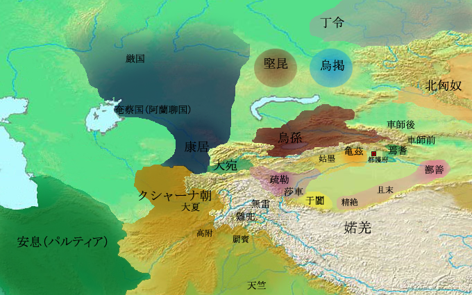 Xiyu City-States from the 1st century to the 2nd century.